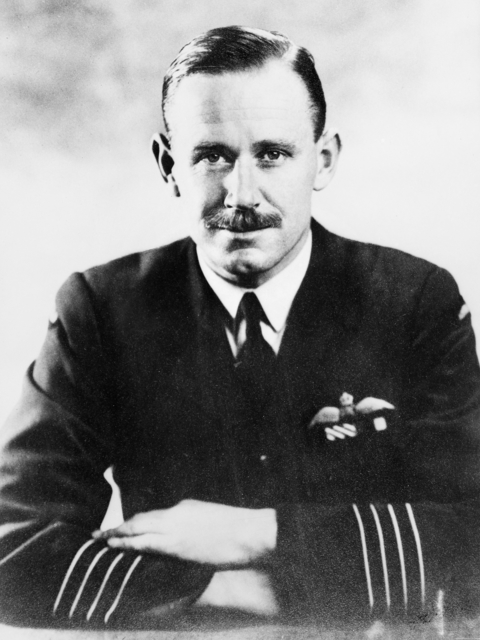 Group Captain John Margrave Lerew DFC RAAF. (Donor H. W. Andrews)